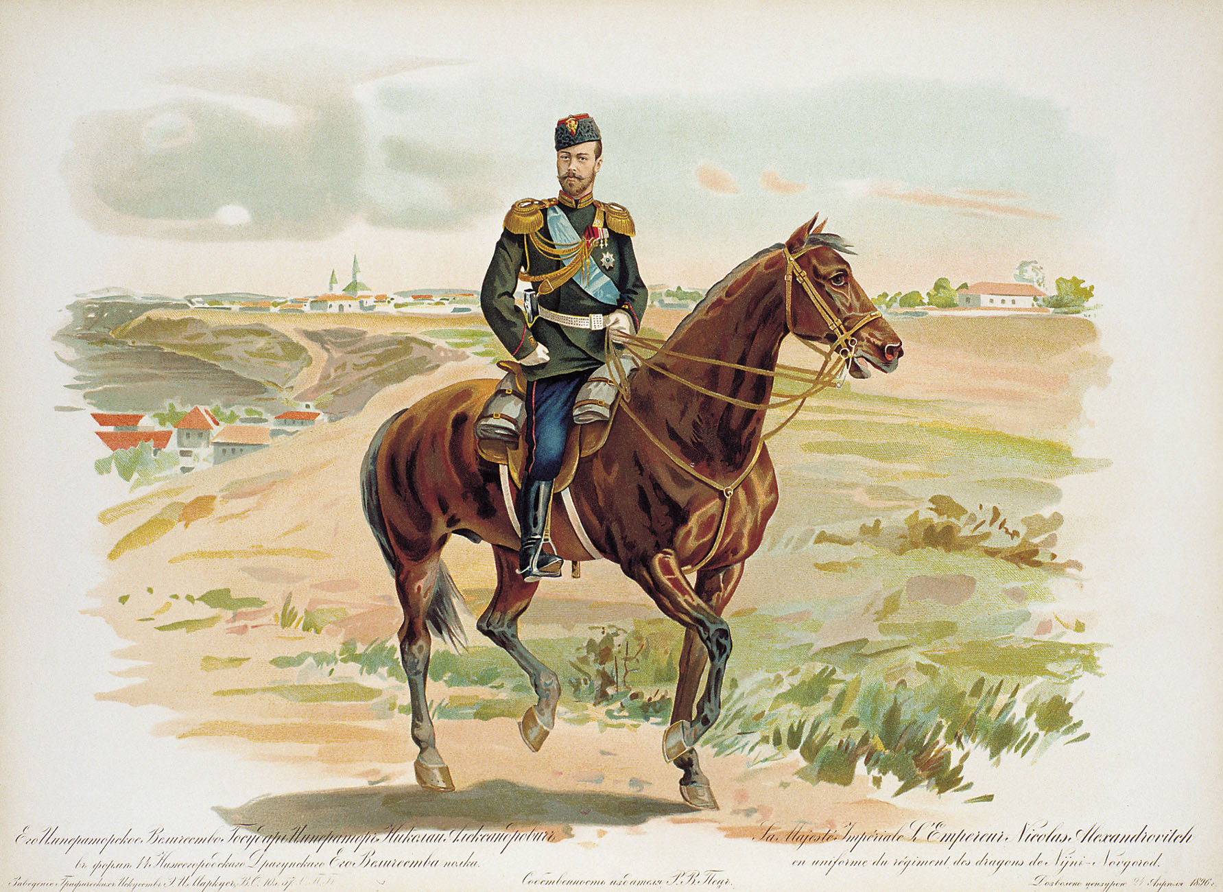 Nicholas II of Russia in the uniform of the Nizhny-Novgorod Dragoon Regiment.